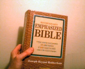 Photo of Rotherham's Emphasized Bible front cover.